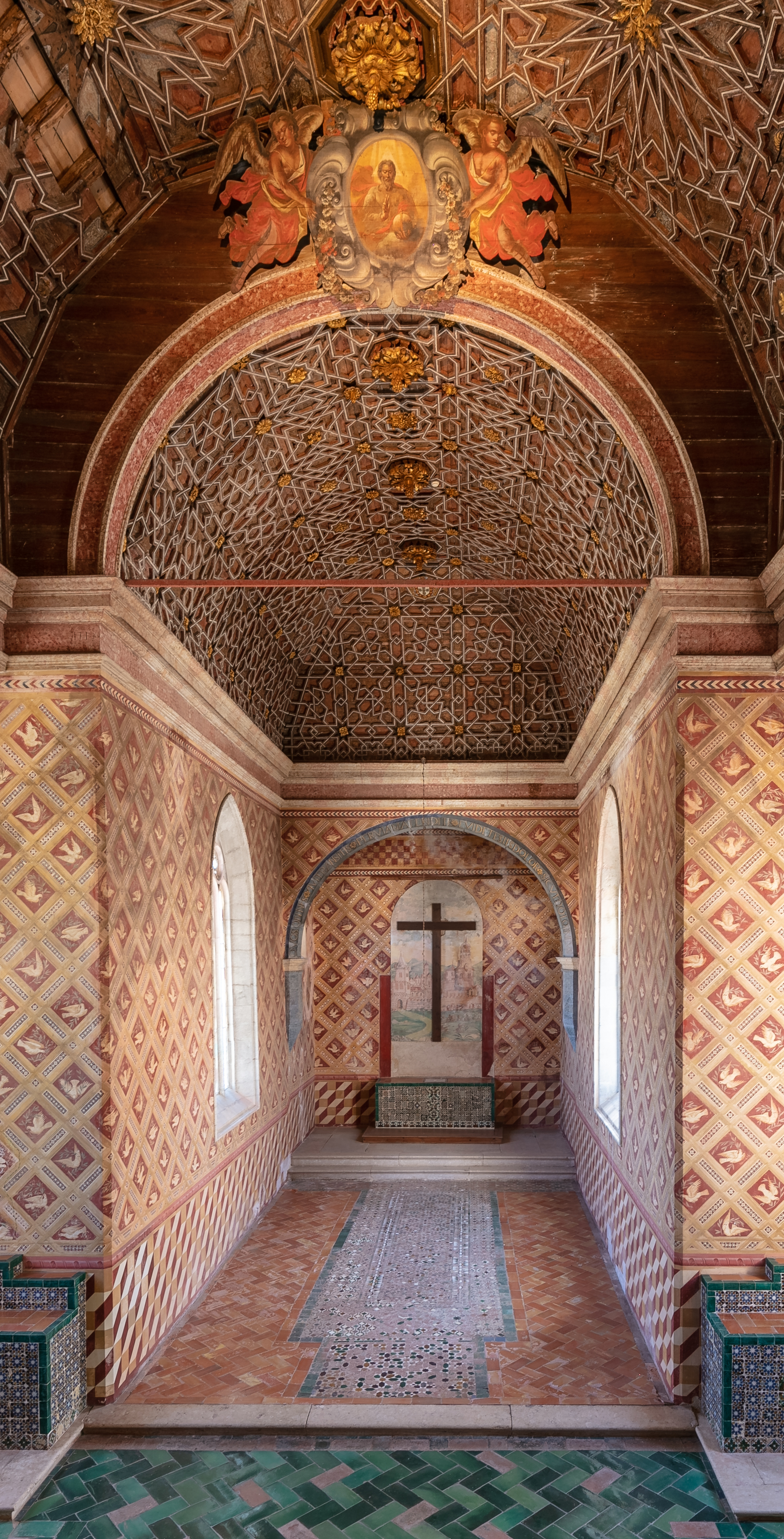 Palácio Nacional, Sintra, Portugal